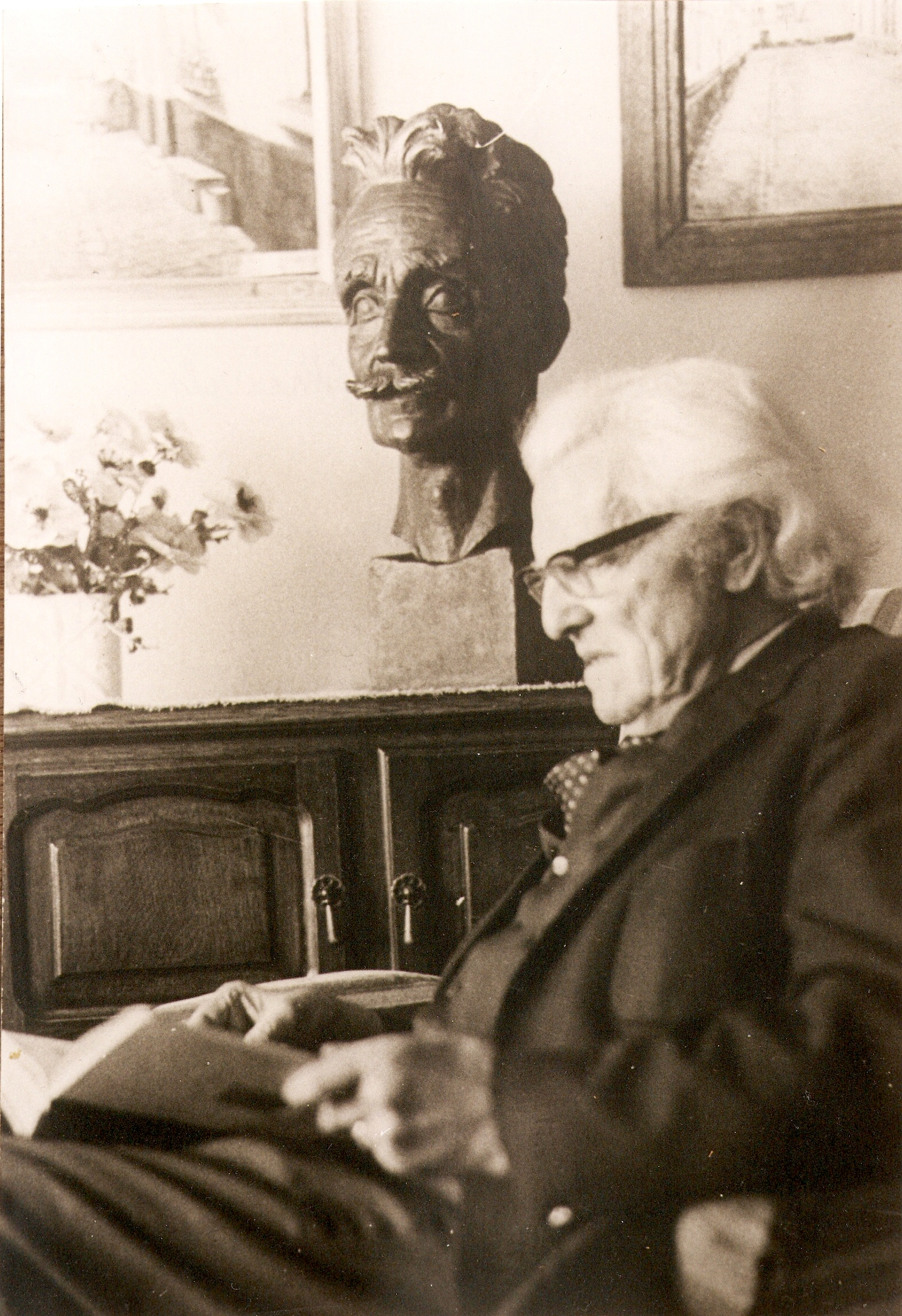 Leon Defraeye in his living room. Behind him a bust of good friend Stijn Streuvels.